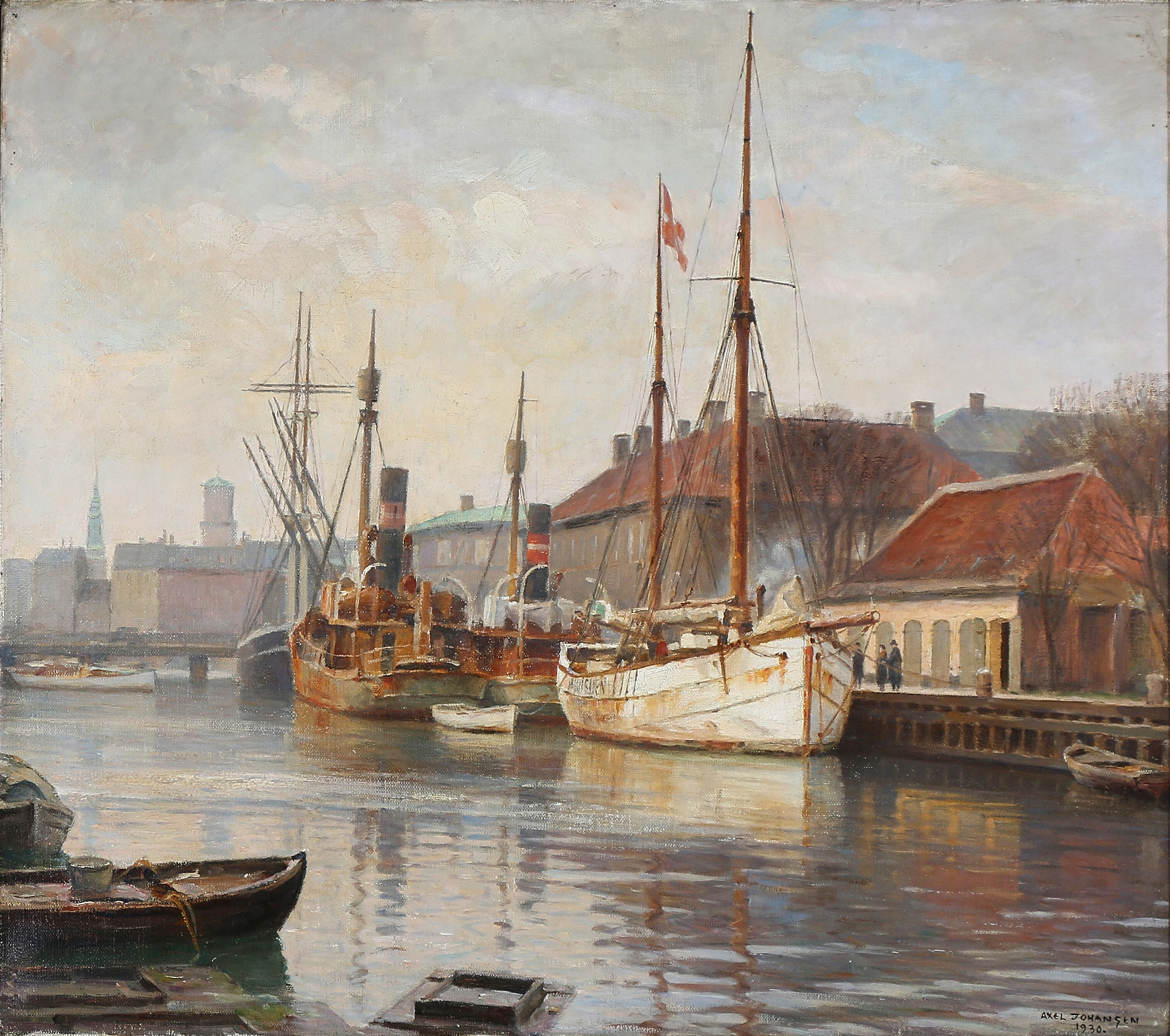 The white ship in the center is the Monsunen, bought in 1929 by the Danish author Knud Andersen, and used by him and his family for far reaching travels until 1933.